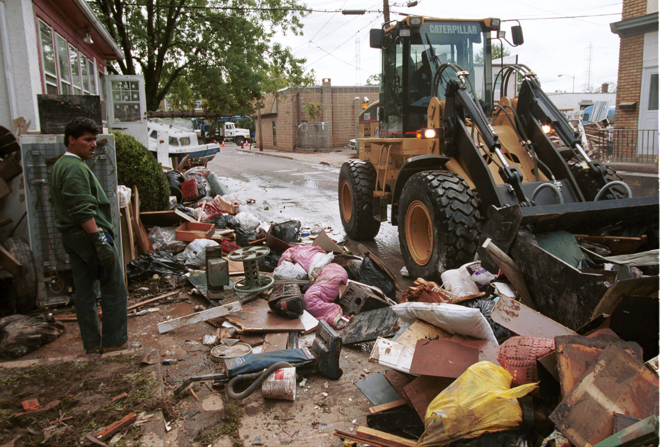 BOUND BROOK, NJ, 9/22/1999 -- Debris removal continues in Bound Brook, N.J. Photo by Andrea Booher/FEMA News Photo